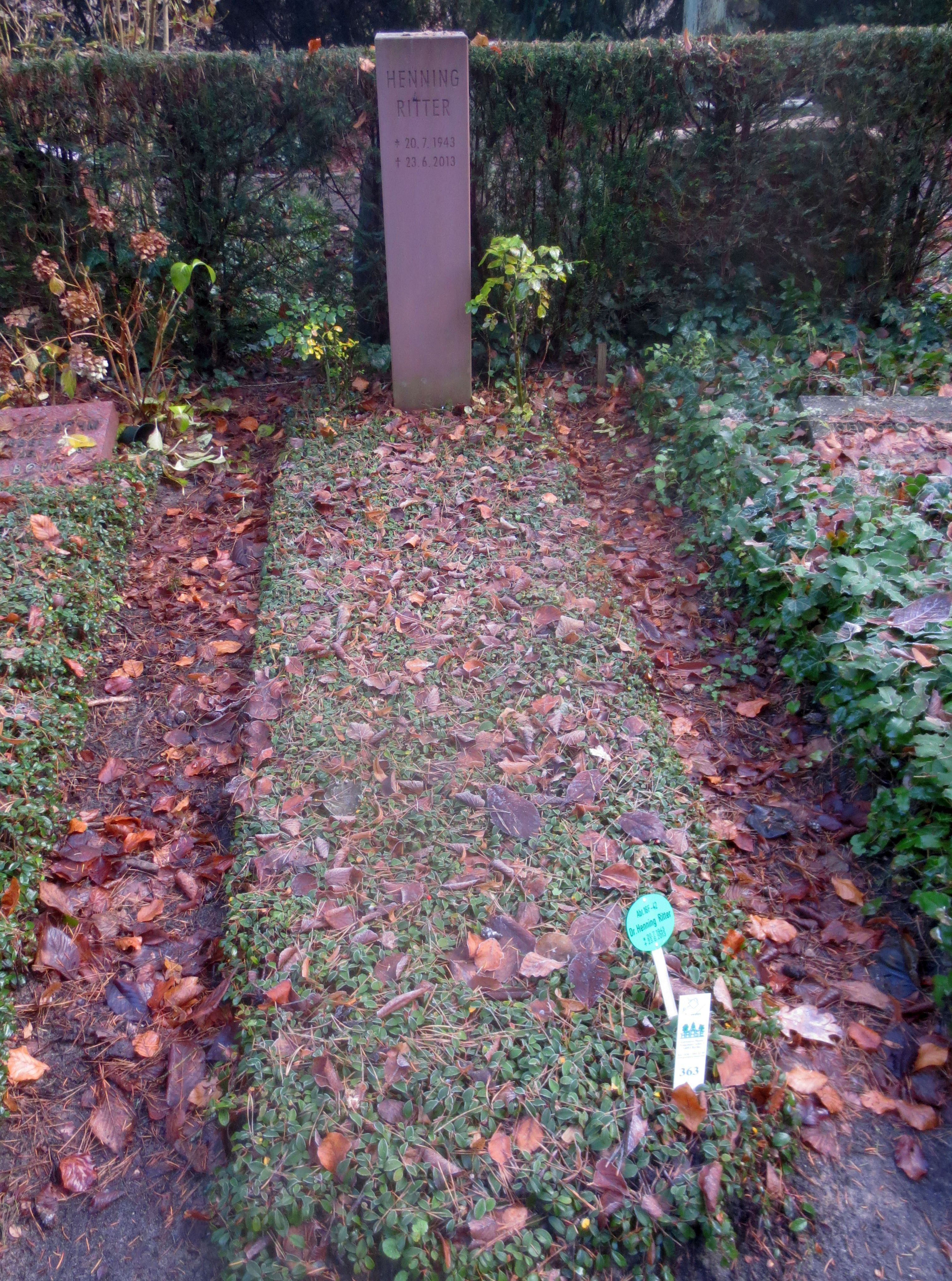 Grave of the journalist and essayist Henning Ritter (1943-2013) on the Friedhof Heerstraße cemetery in Berlin-Westend (burial place: 16-F-42).